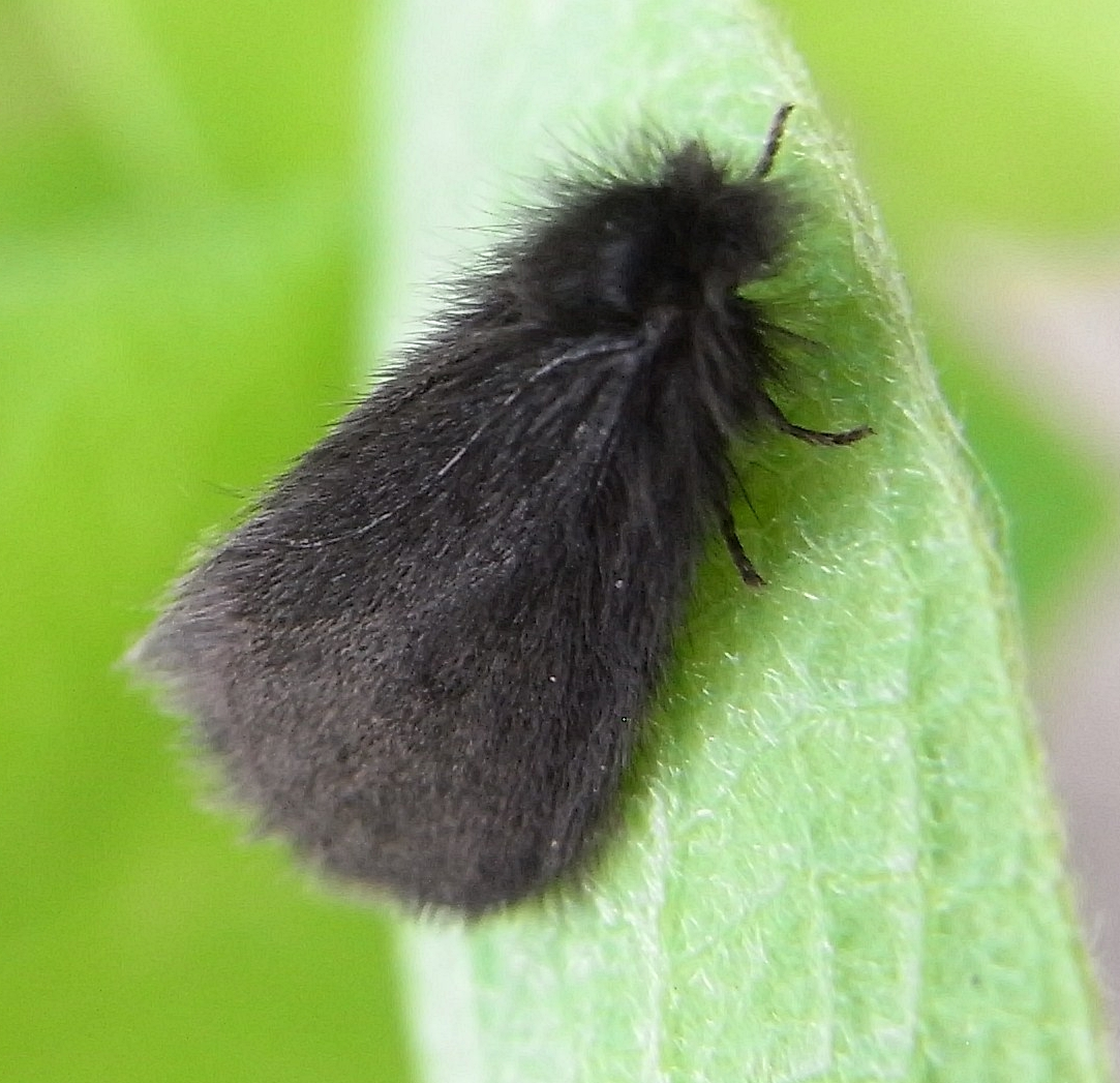 Epichnopterix kovacsi from Hungary, near Mako Ricoh R8